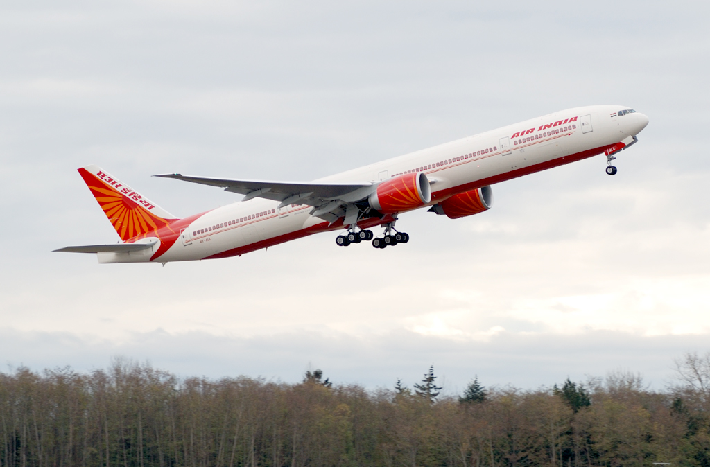 An Air India Boeing 777-300ER departing from Paine Field in Washington state, United States.